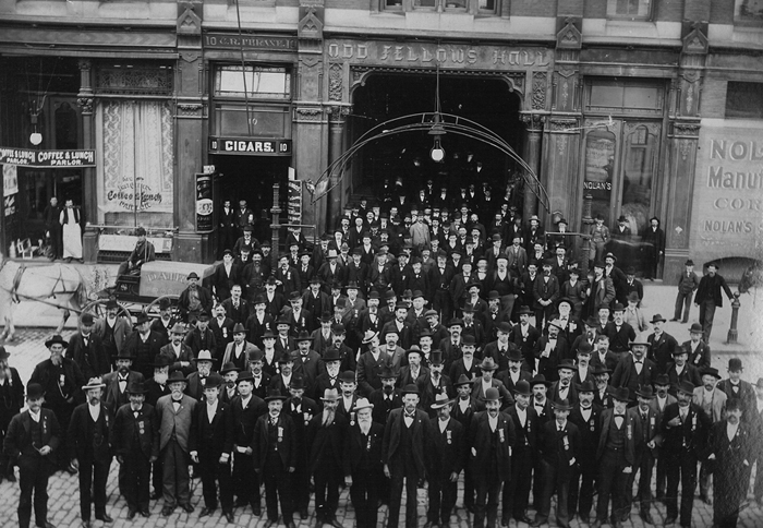 Members of the AOUW Ancient Order of United Workmen in front of the Odd Fellows Hall, San Francisco, 4 April 1900